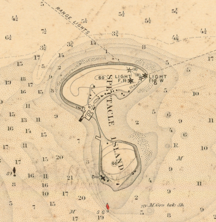 Spectacle Island as shown on Chart 246 (Boston Harbor) in 1909 Other information cropped from image of entire chart